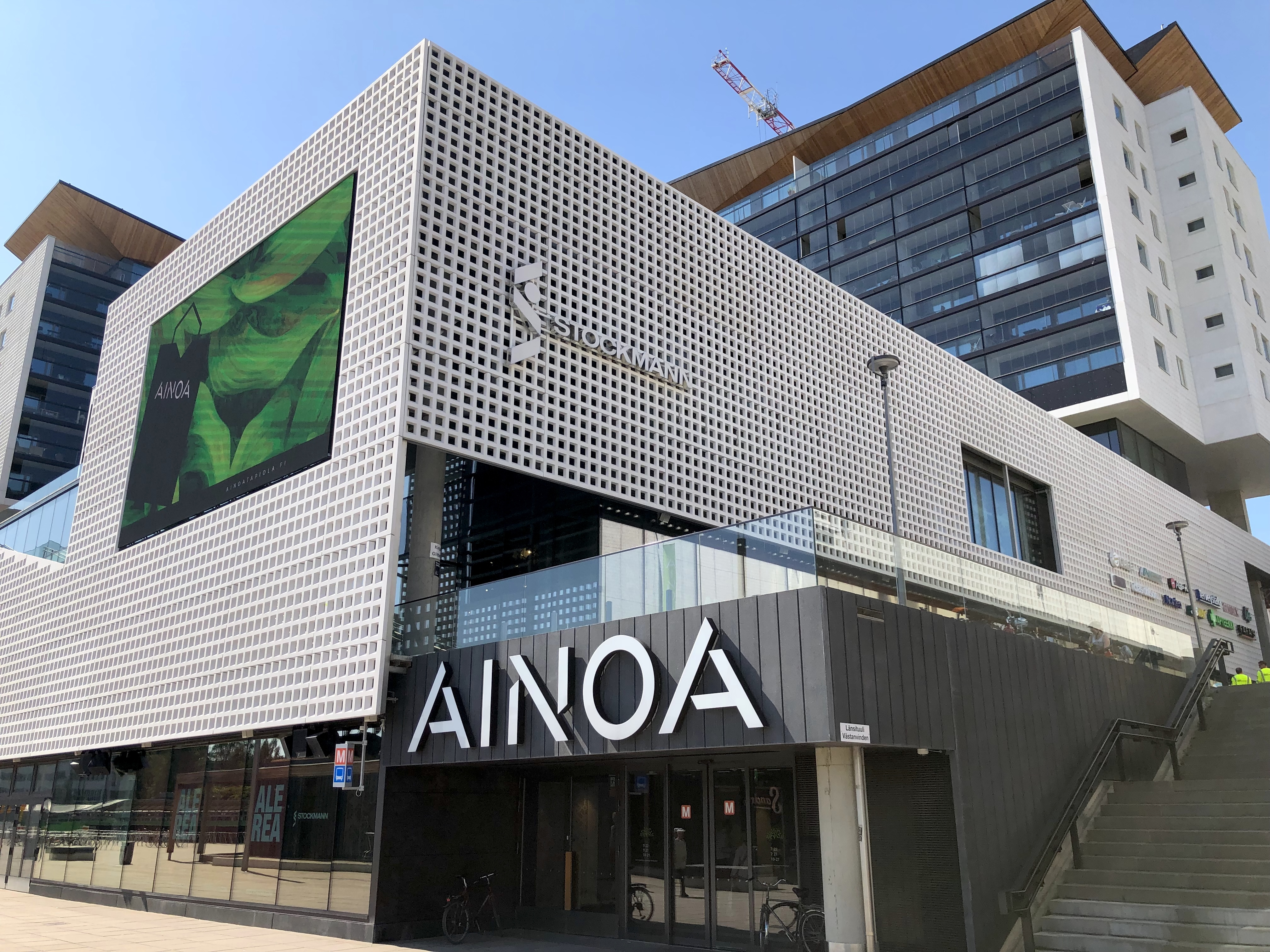 Ainoa shopping mall in Tapiola Espoo Finland in July 2019.